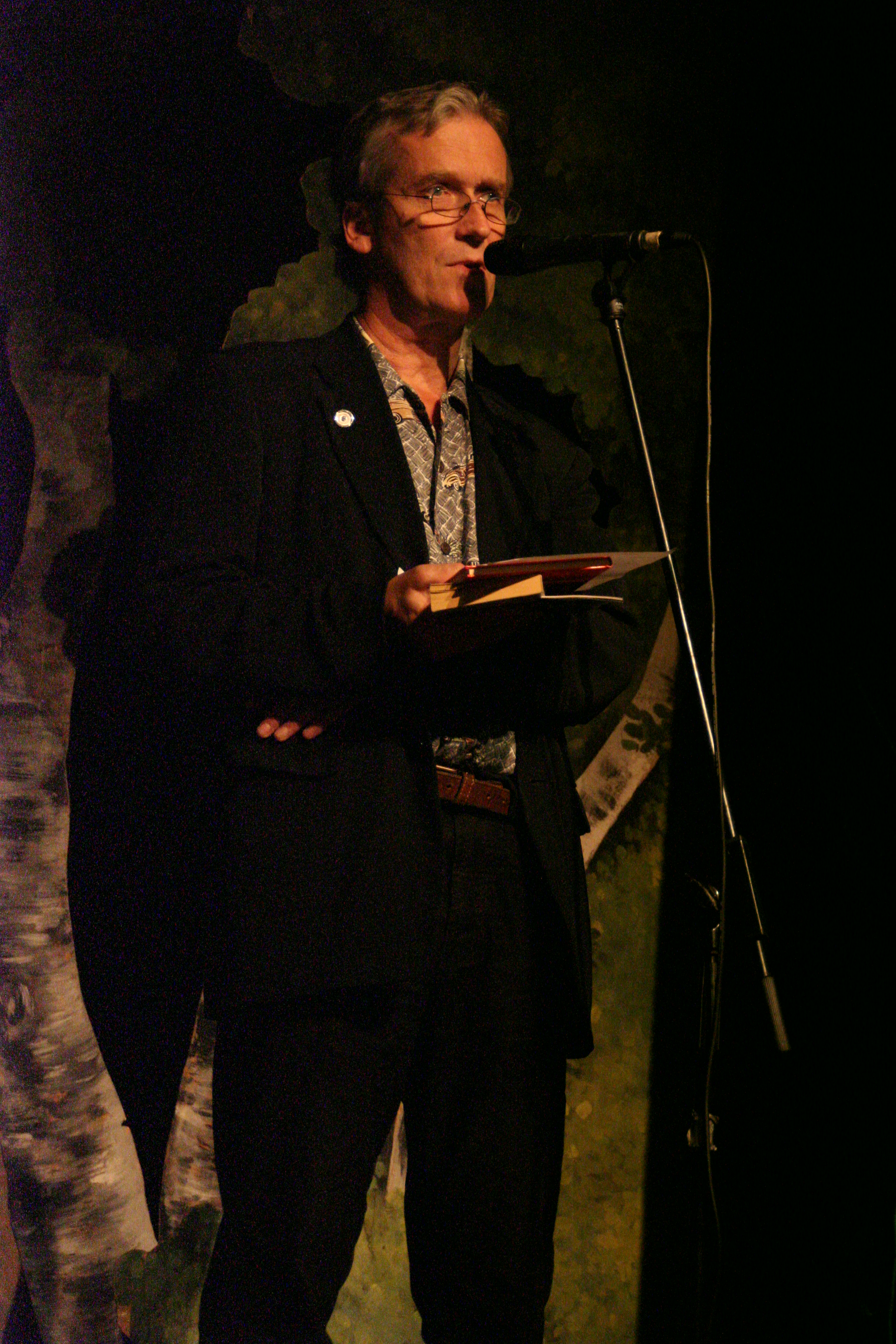 writer Ragnar Hovland at Bjørnsonfestivalen 2006 in Molde, Norway